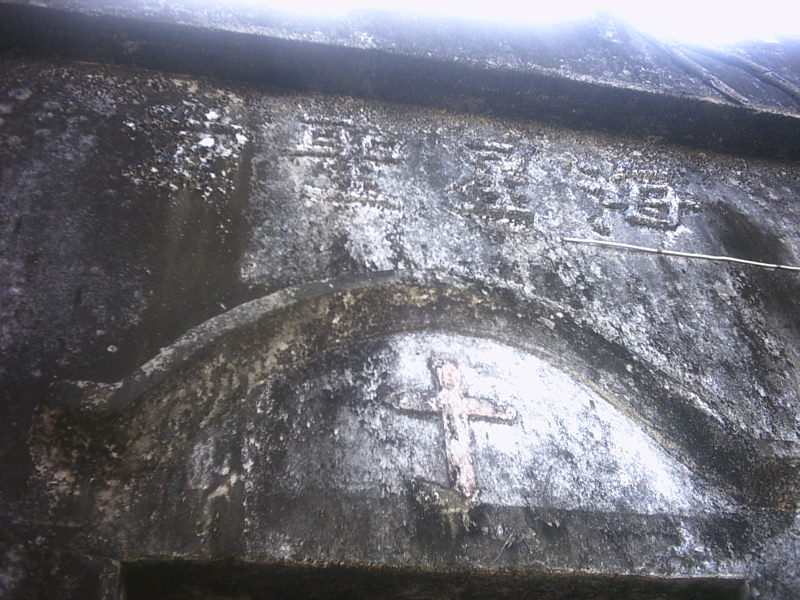 Photo taken in Hai Sain Church, Hong Kong Tai Long Sai Wen, in the top, it writen 1903 and 天主堂(Church), In the left is 海星聖堂(Hai Sain Church, what mean the church of sea and star.).香港西貢大浪西灣西灣村的教堂兼學校--海星小堂，據村民說為大理石建築，建築於六十年代荒廢，樓面上部寫著1903及天主堂，左邊為海星聖堂，現在連前往至建築的道路都早已荒廢了。